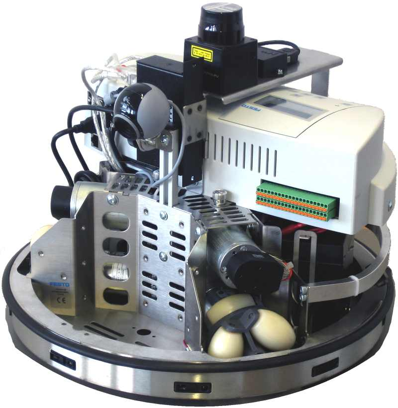 Robotino equipped with an optional rangefinder